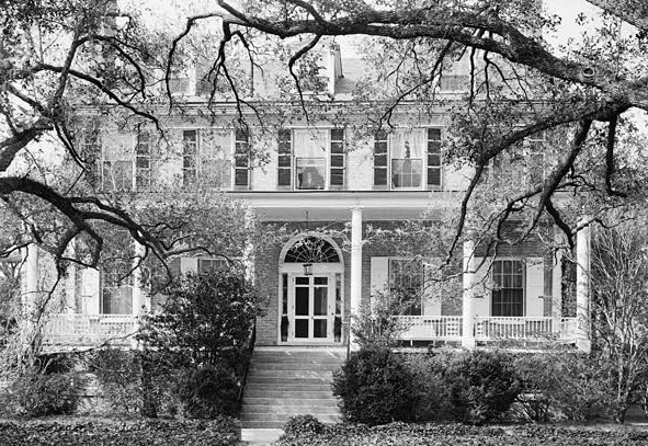 Mulberry Plantation (Kershaw County) (cropped)